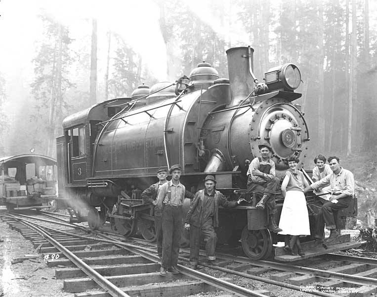 Caption on image: No. 90 PH Coll 516.5209The Wynooche Timber Company began operations ca. 1913 with headquarters in Hoquiam and logging operations in Montesano. It was named for Wynooche Valley in northeast Grays Harbor County. Wynooche Timber Company was bought out by Schafer Brothers Logging Company ca. 1927. Subjects (LCTGM): Waitresses--Washington (State); Wynooche Timber Company--Equipment & supplies--Washington (State); Wynooche Timber Company--People--Washington (State); Grays Harbor County (Wash.) Subjects (LCSH): Baldwin locomotives; Logging railroads--Washington (State)--Grays Harbor County; Locomotive engineers--Washington (State)--Grays Harbor County; Locomotive firemen--Washington (State)--Grays Harbor County